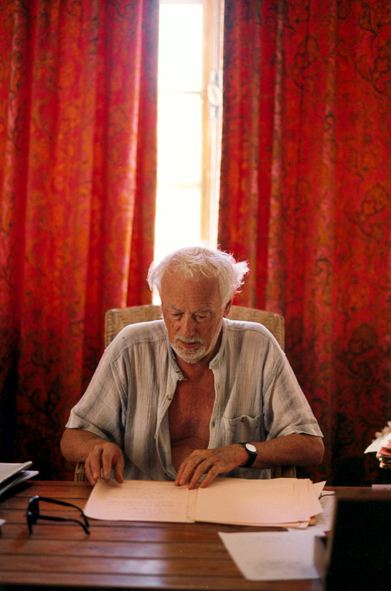 Le dramaturge français Romain Weingarten vers 1996.